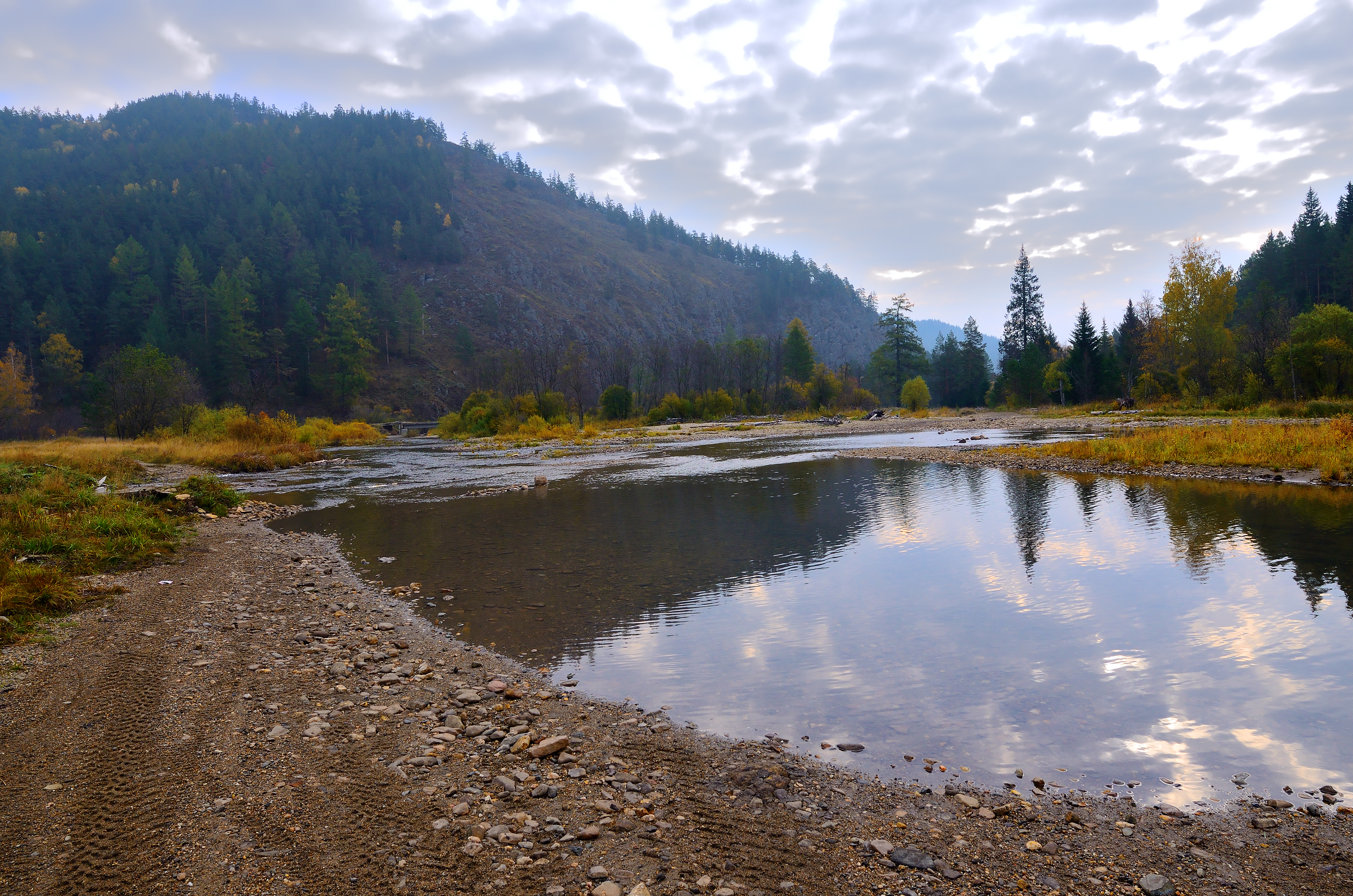 Ford through Tirlyan on the way to Miseli.